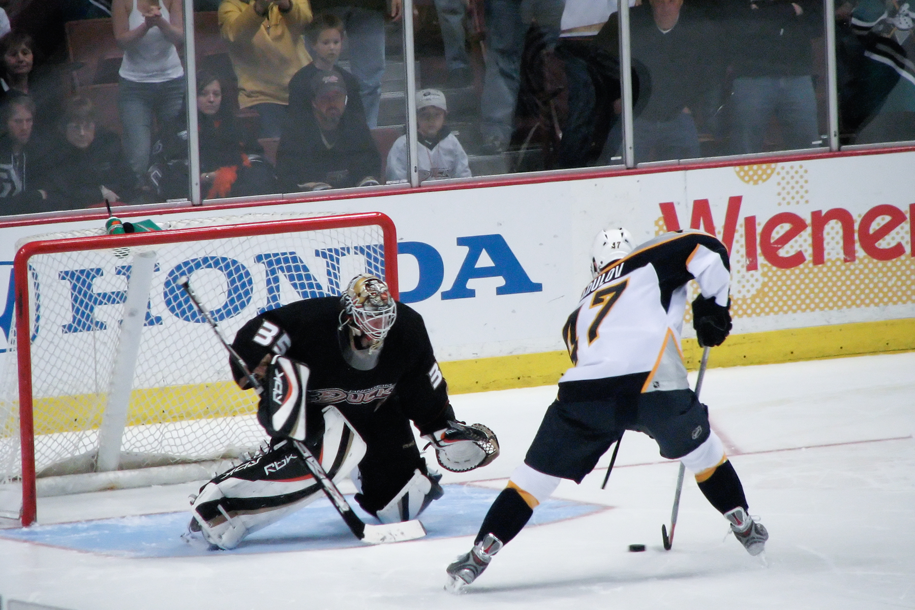 Alexander Radulov attempts to score during the shootout of a match between the Nashville Predators and Anaheim Ducks in 2007.